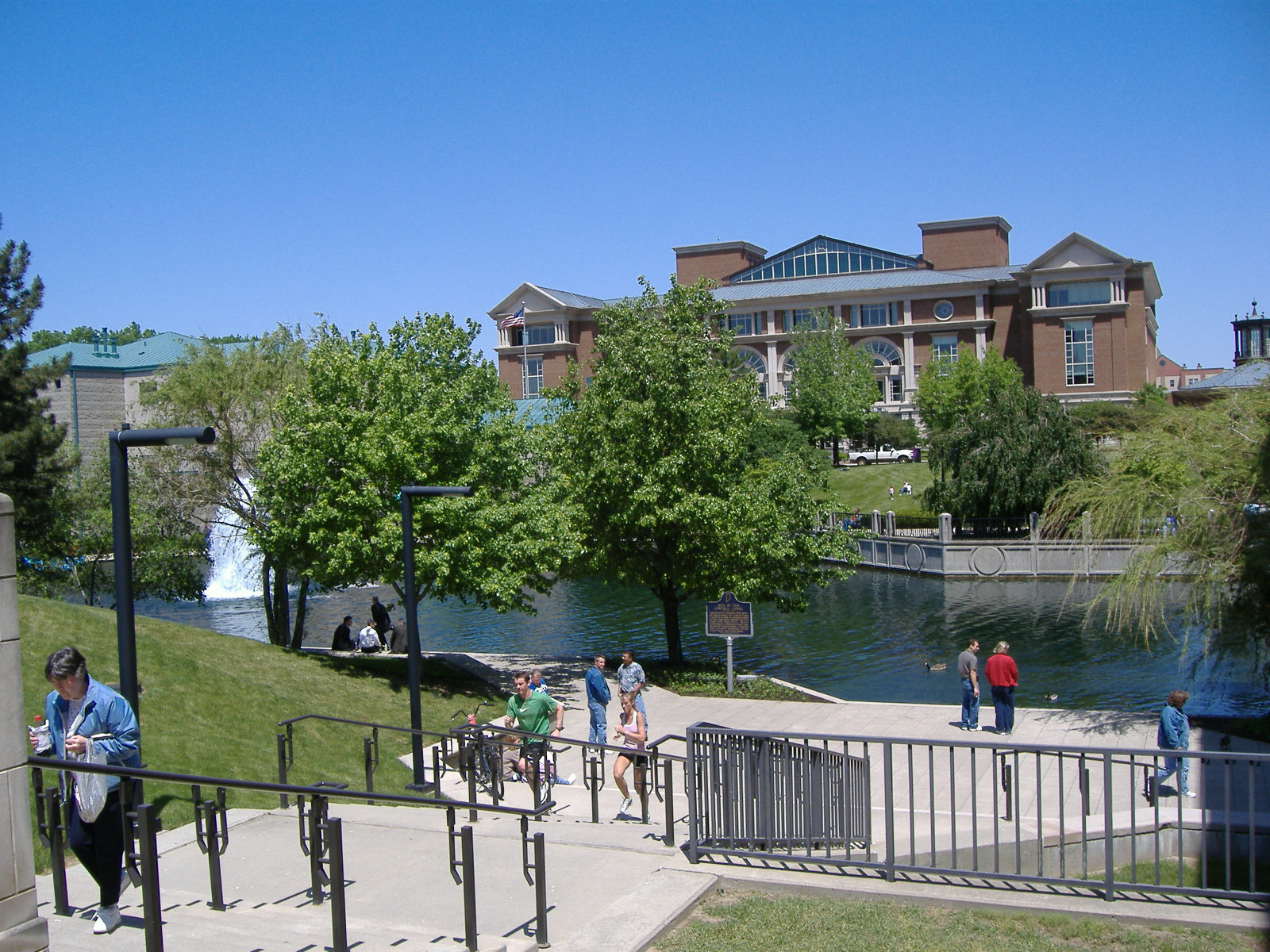 Image of the Indiana Central Canal in Indianapolis, Indiana.